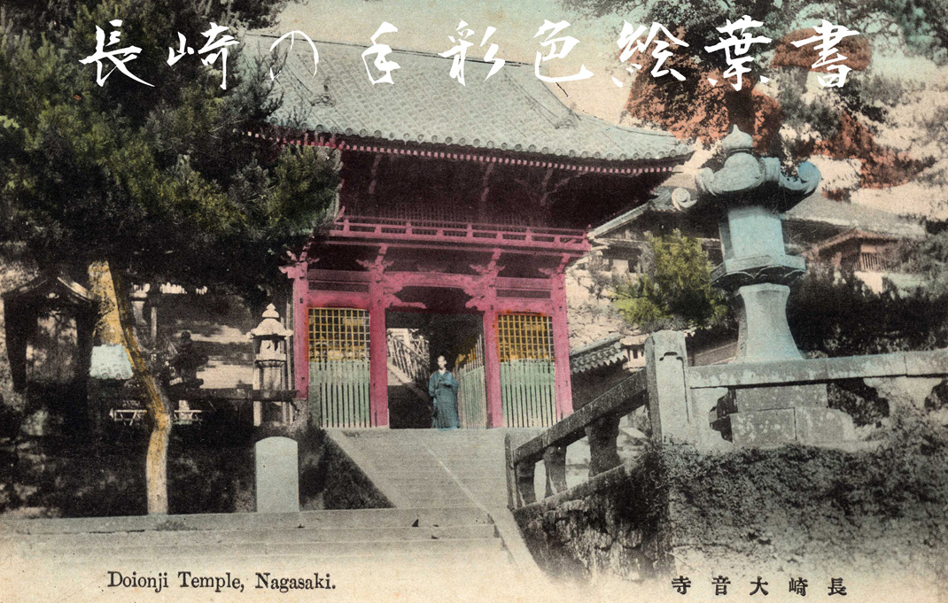 Japanese hand tinted postcard view of Daionji, a temple in Nagasaki